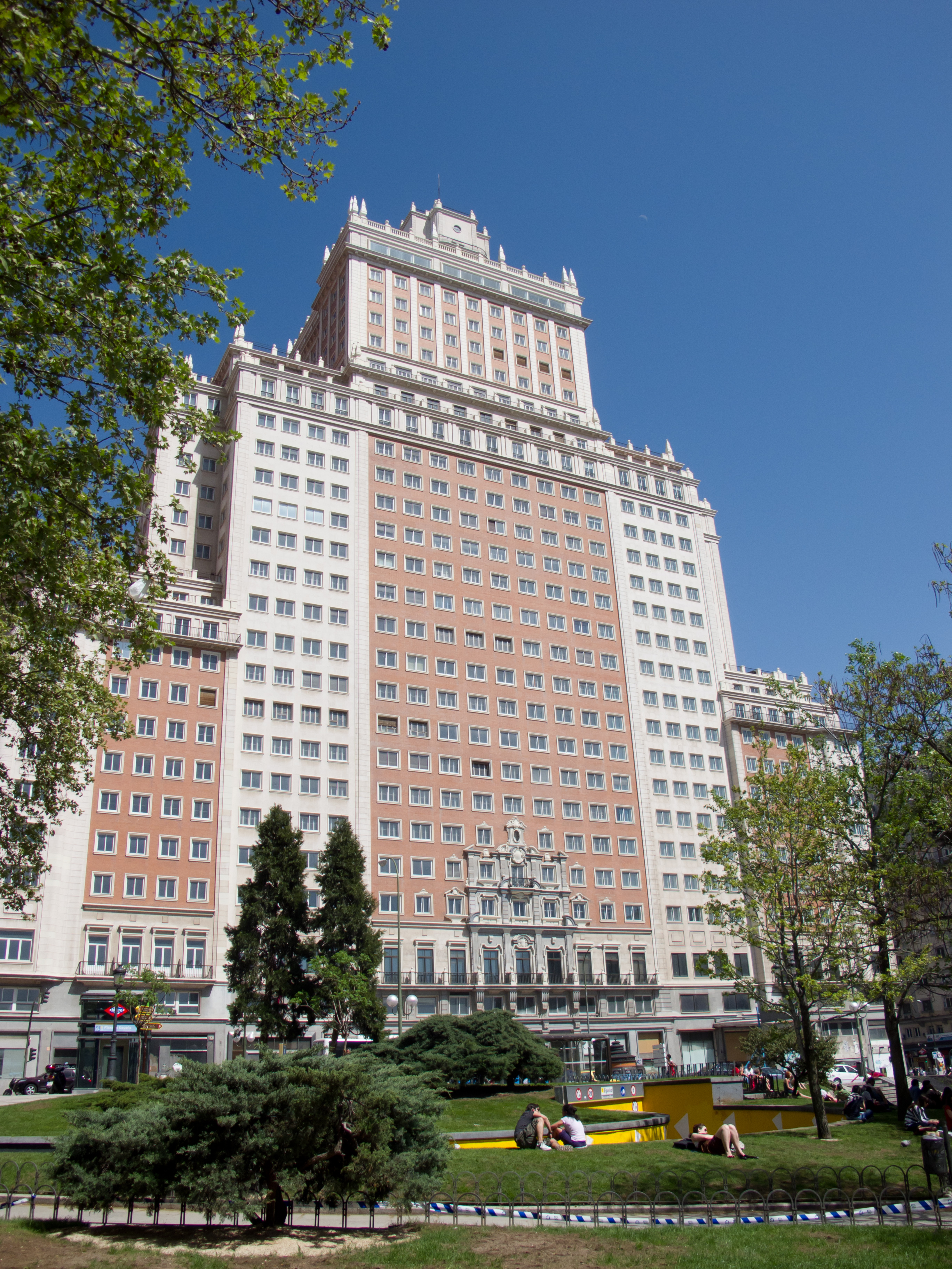 España Building, Madrid.